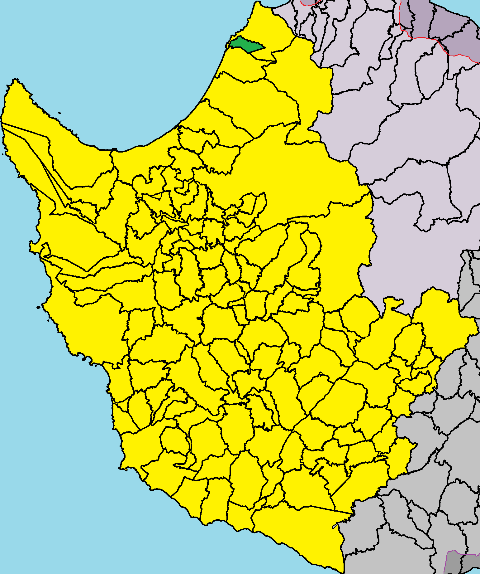 Nea Dimmata in Paphos District.